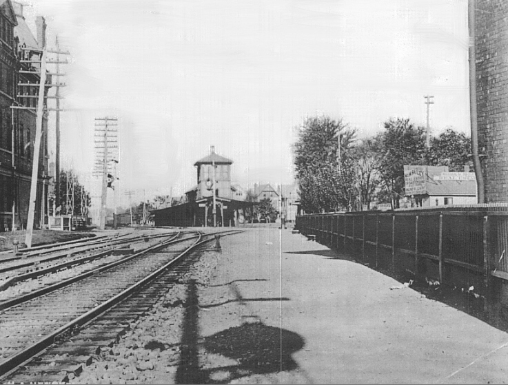 The area of the Roseville Avenue station during the time before tracks were depressed in Newark. The tracks were depressed soon after.